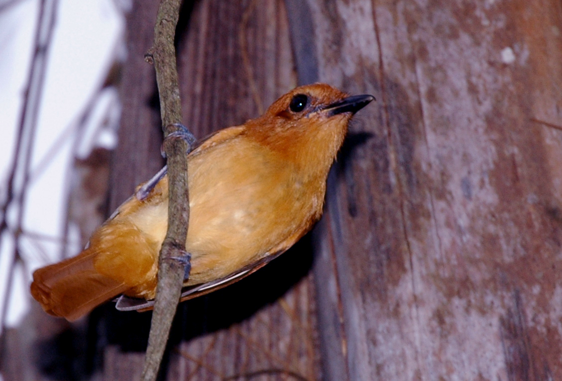 Cinnamon Attila (Attila cinnamomeus). This bird is native to northeastern South America (Guyana, French Guiana, Suriname, Brazil), and can often be seen in tree stands near water in the coastal and savanna areas and the Sipalawini savanna. These birds are very rare in the rainforest.